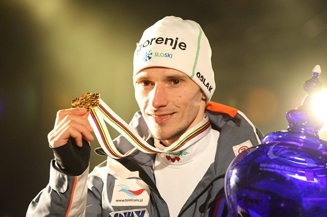 Robert Kranjec with gold medal of the FIS Ski-Flying World Championships 2012